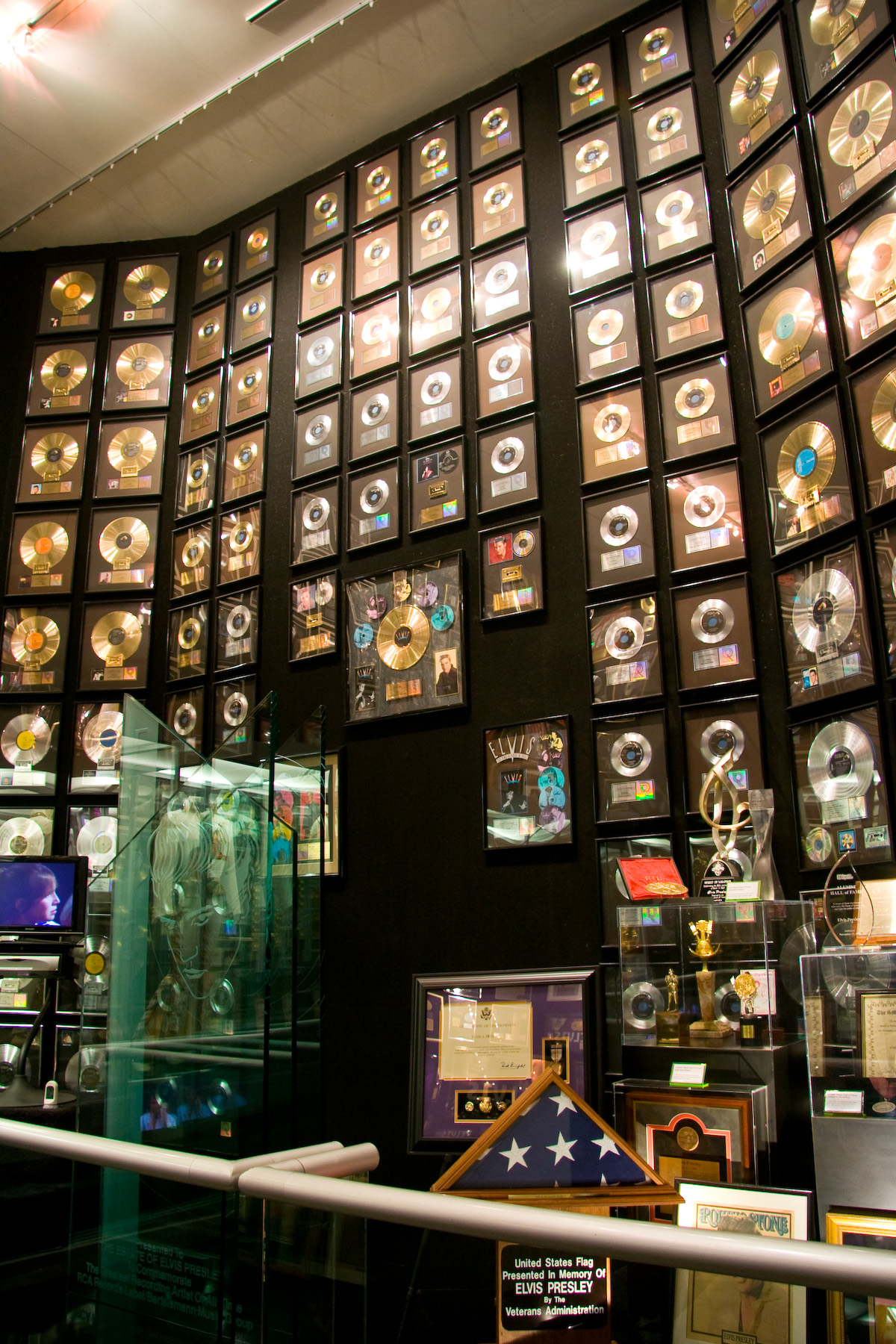 A trophy room in Elvis Presley's mansion, Graceland.